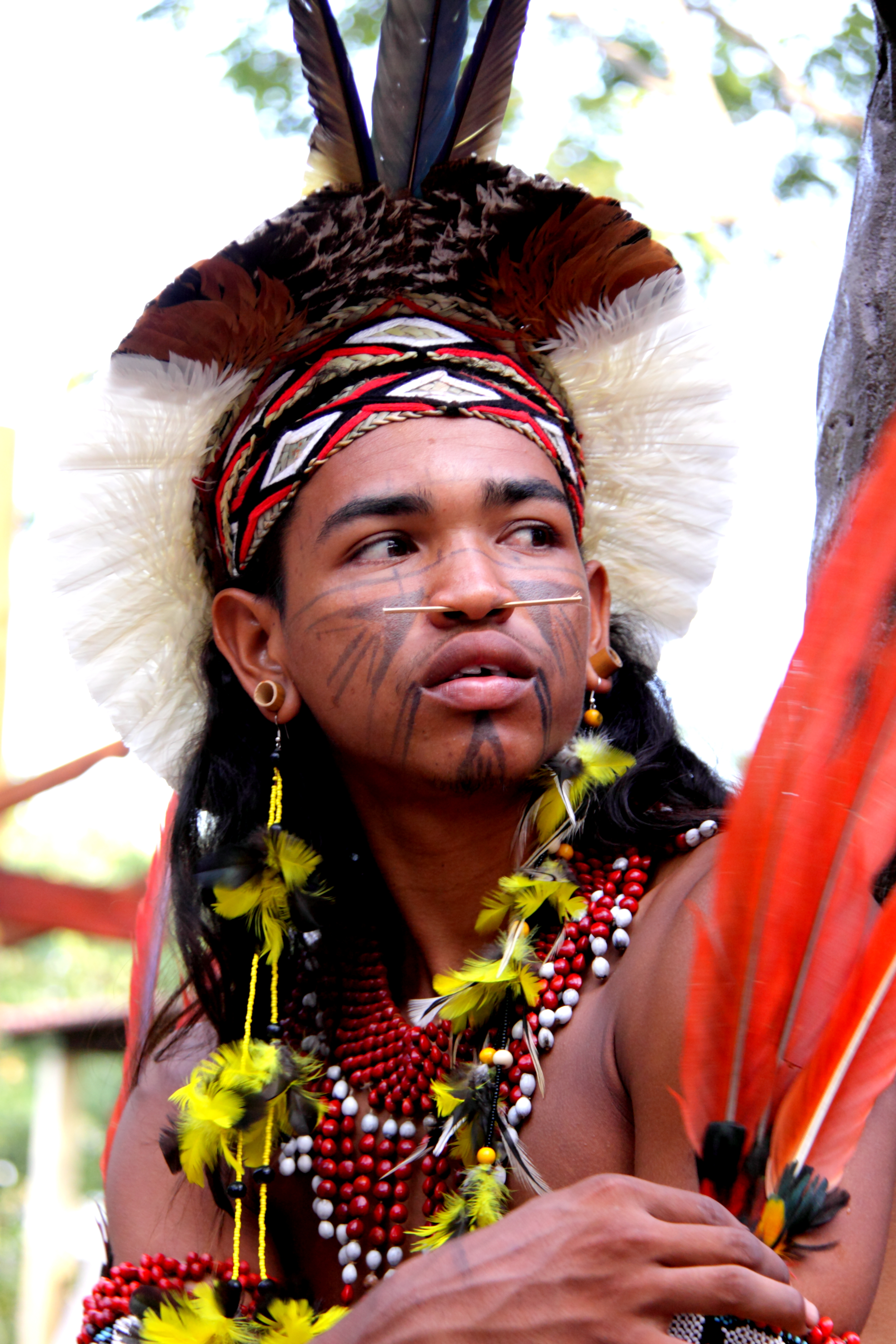 Indian Pataxo from south america, bahia province, Brasil